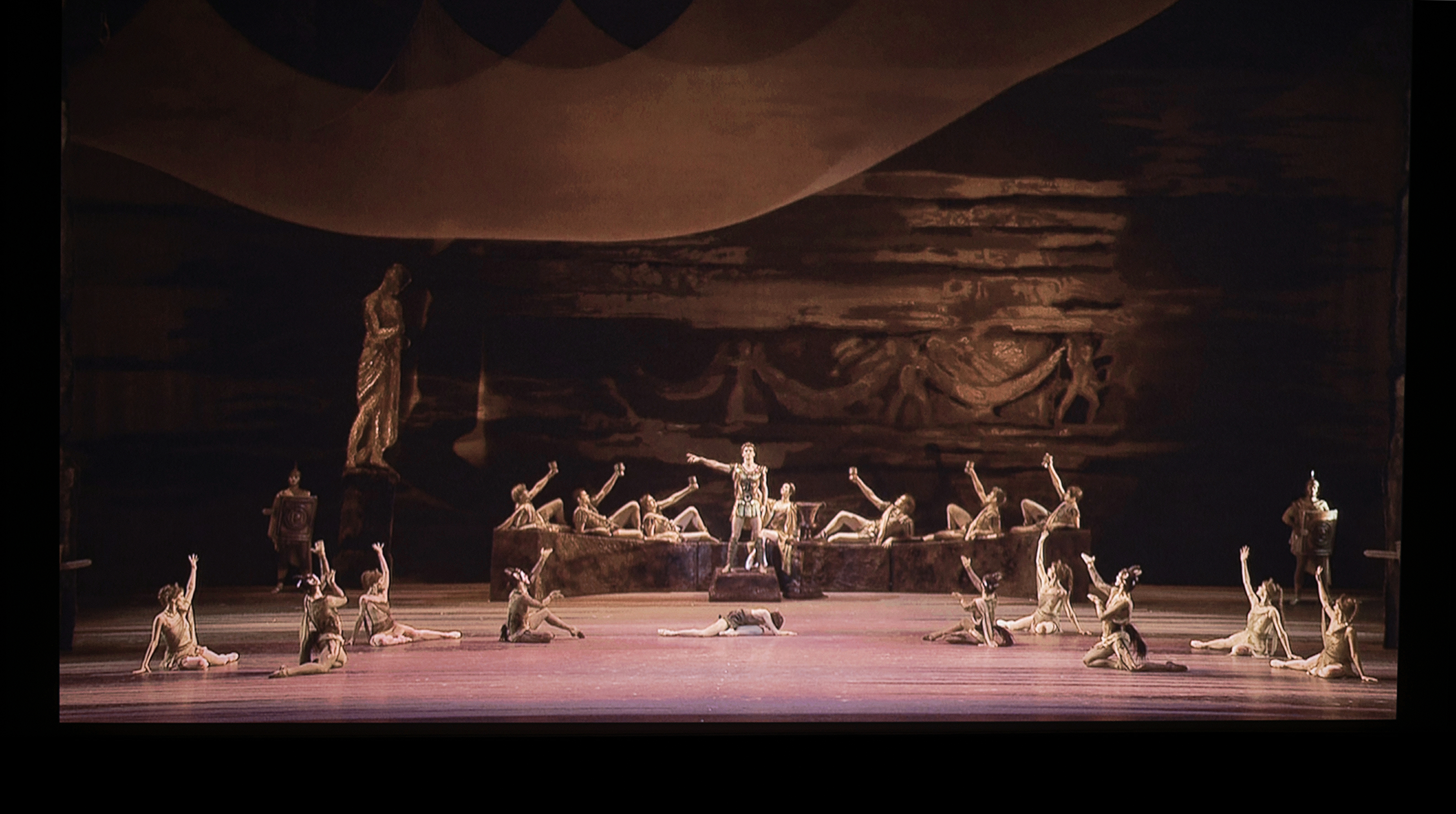 Spartacus at Bolshoi in Moskow October 2013